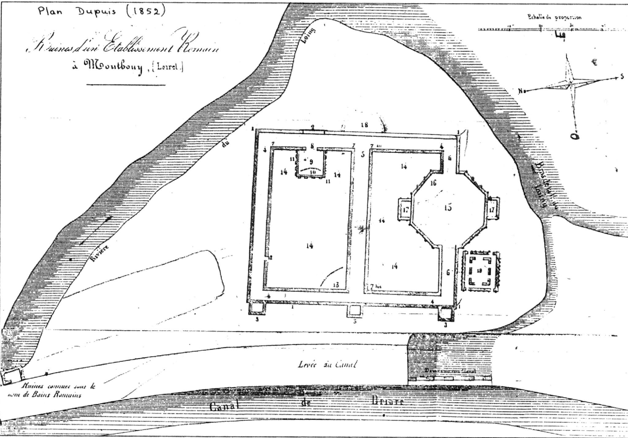 Map of the large gallo-roman temple as part of the thermal site that included older installations near Montbouy, Loiret, France.